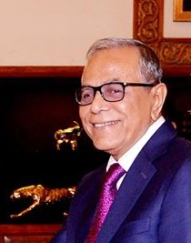 Abdul Hamid (politician)